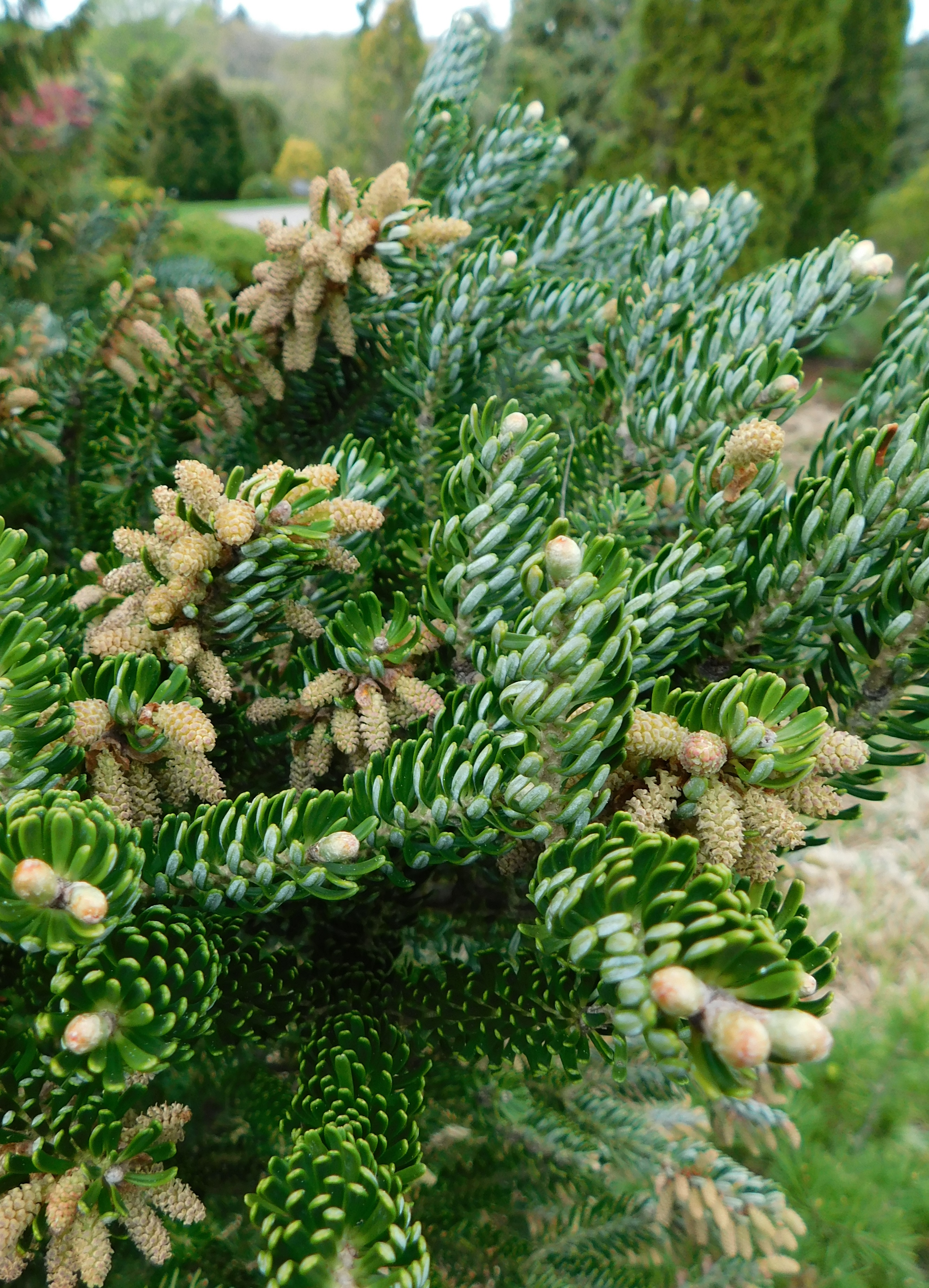 Abies koreana 'Silver Show' at the Chicago Botanic Garden, Illinois, USA. Identified by the garden signage.